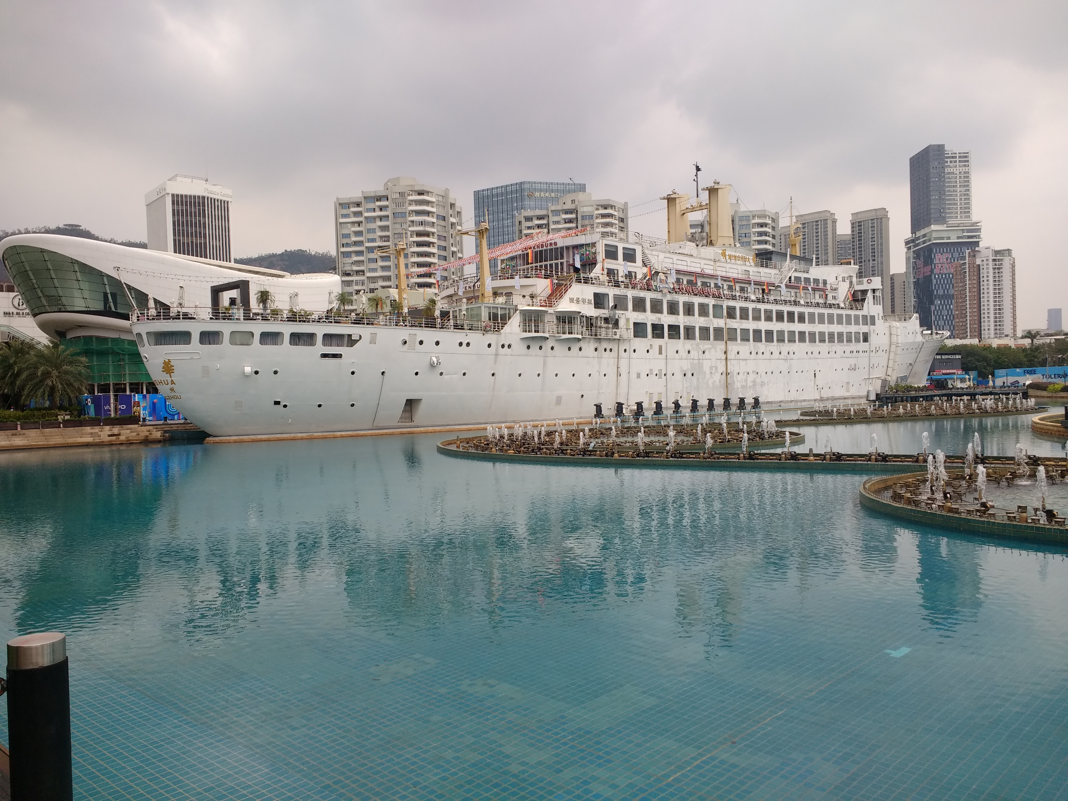 Minghua, the ship at Shekou Seaworld in Shenzhen, China.